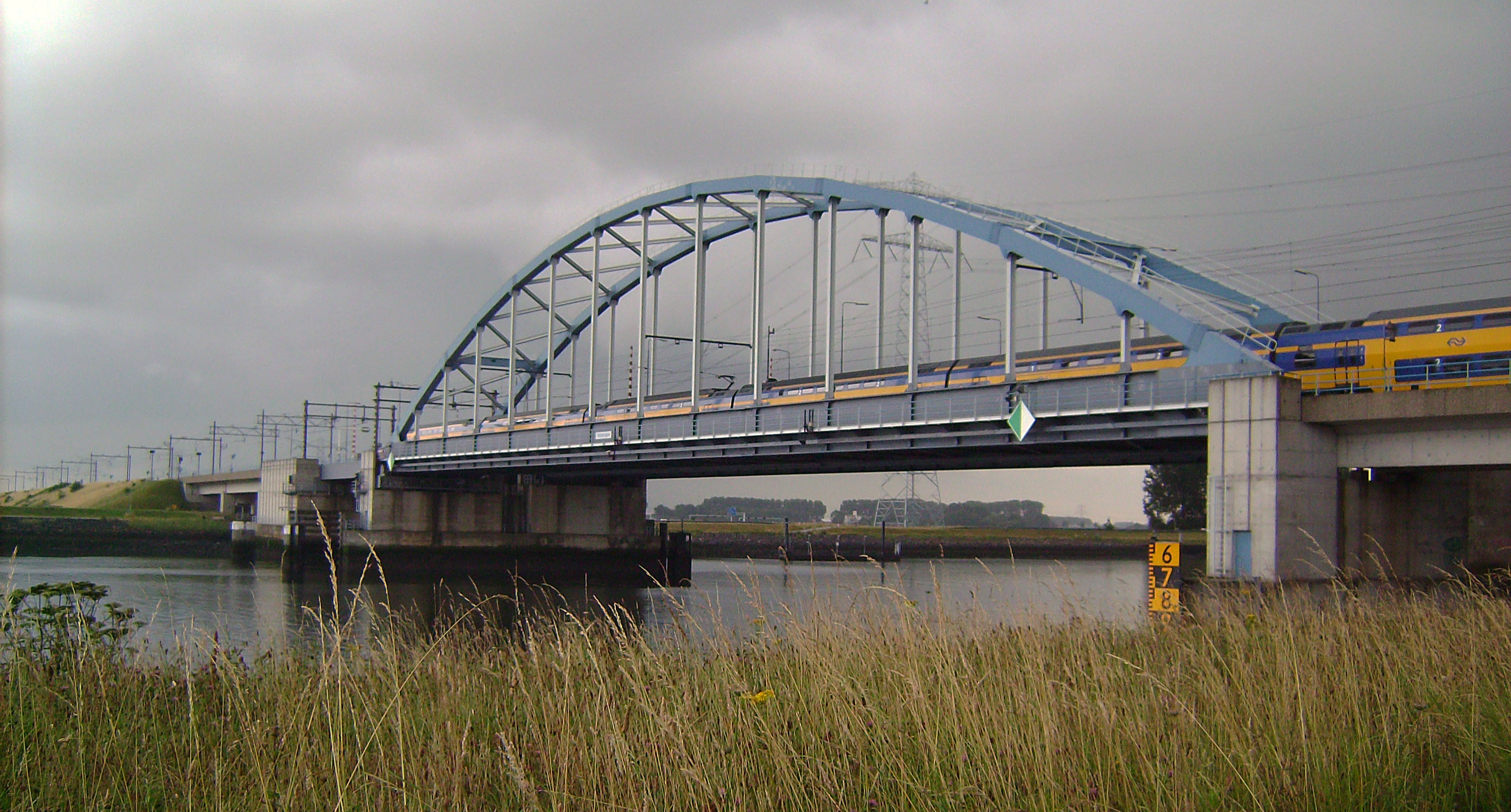 Bascule railway bridge over the Canal through Zuid-Beveland in The Netherlands.